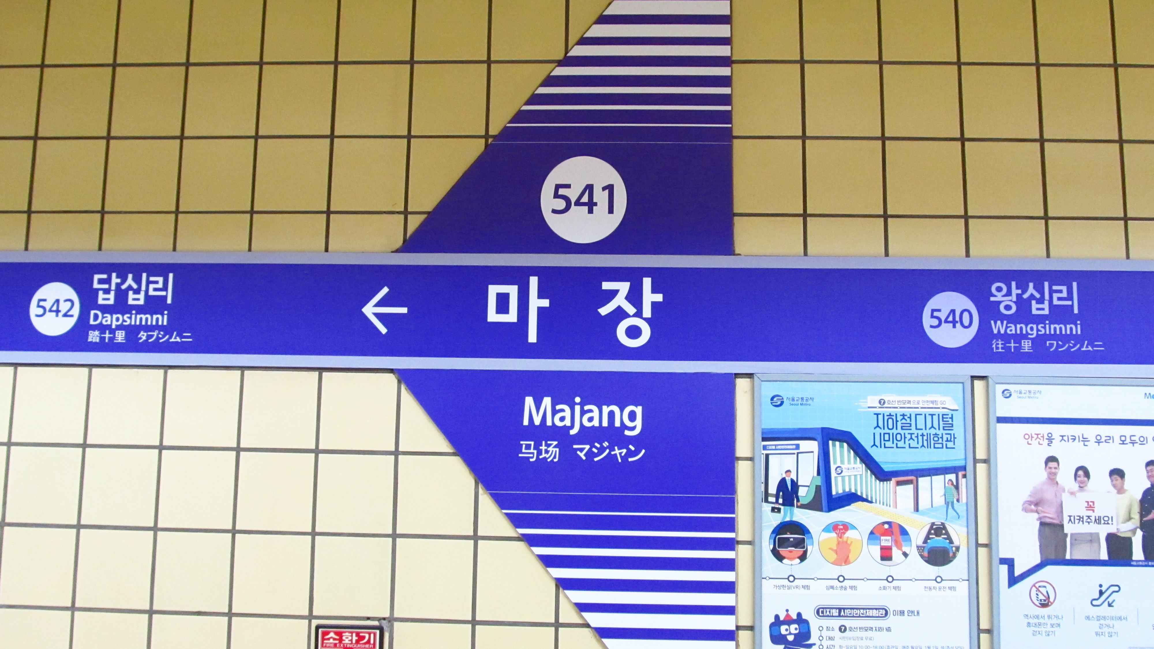 A sign of Majang Station on Seoul Subway Line 5